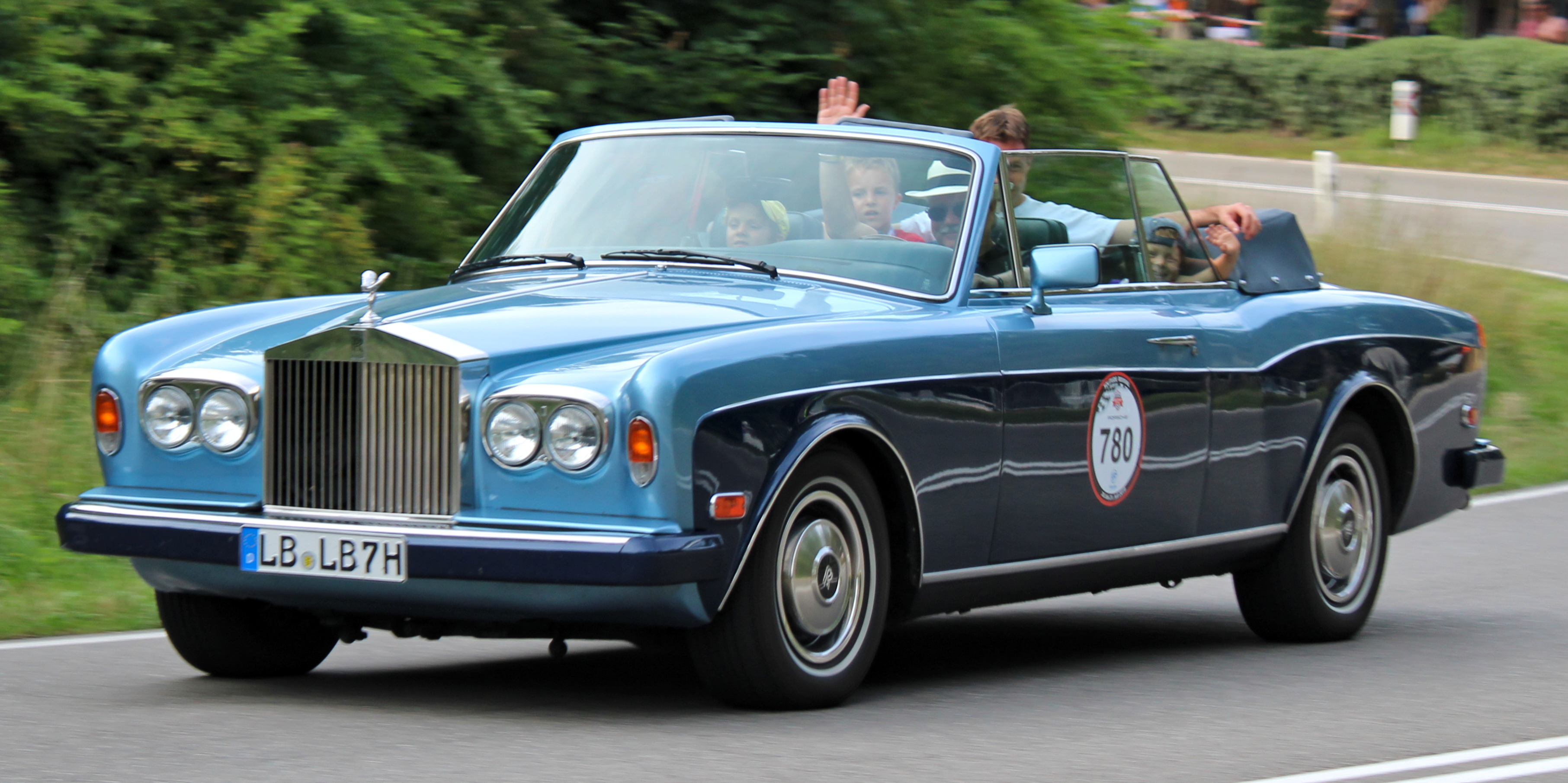 Rolls-Royce Corniche (1985) at Solitude Revival 2019